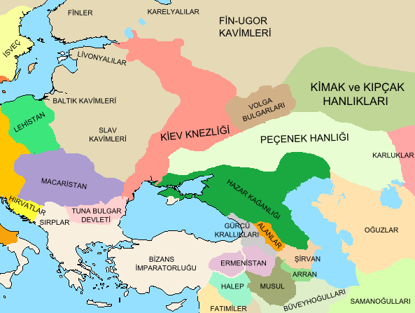 Khazaria and surrounding states, c. w:950 CE.